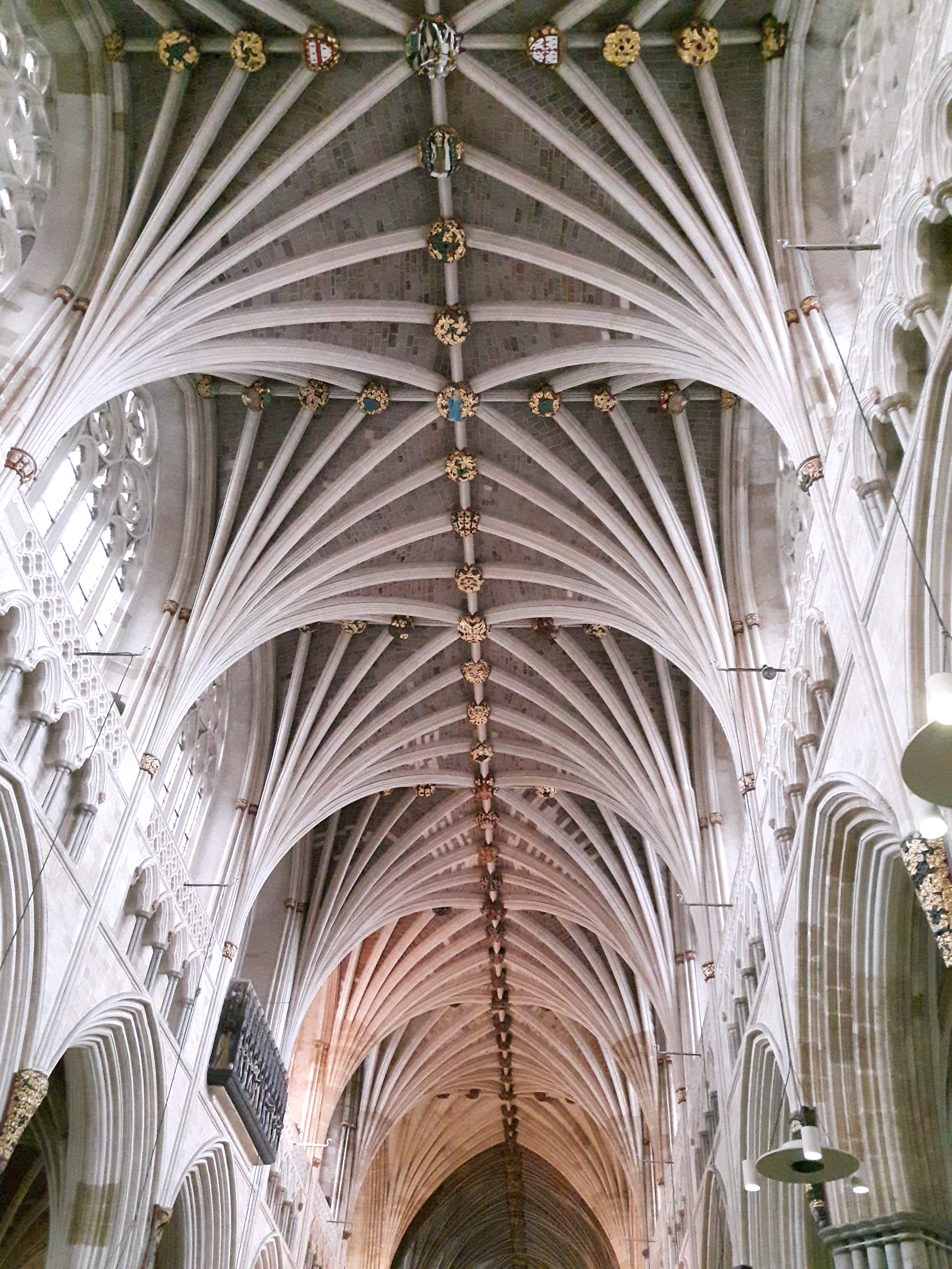 Exeter Cathedral Wikidata has entry Q1131208 with data related to this item.